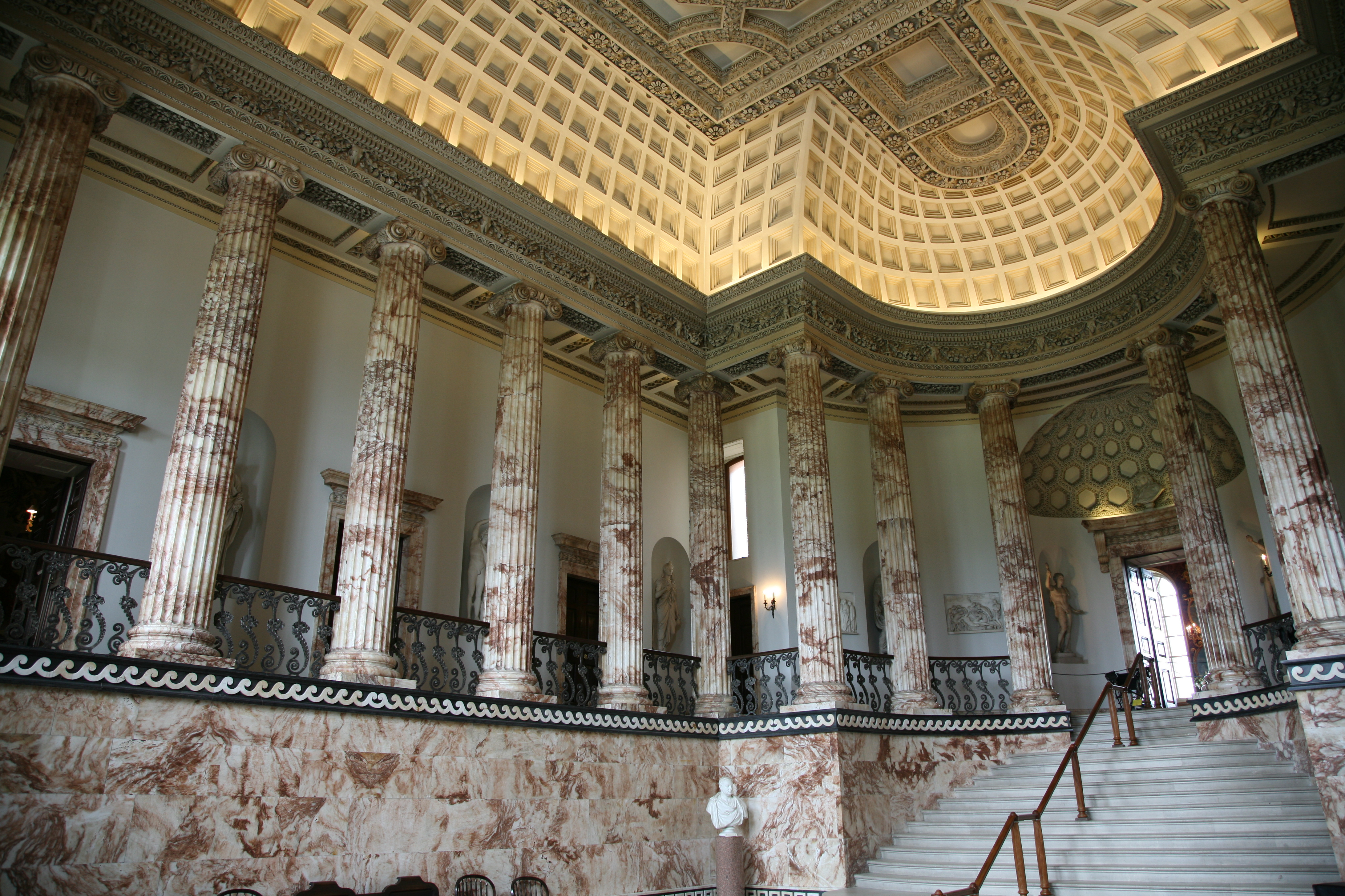 Holkham Hall in Norfolk. The Marble Hall